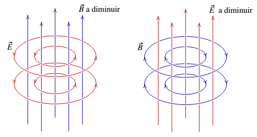 Campo elétrico induzido por um campo magnético uniforme mas variável (esquerda) e campo magnético induzido por um campo elétrico uniforme mas variável (direita).